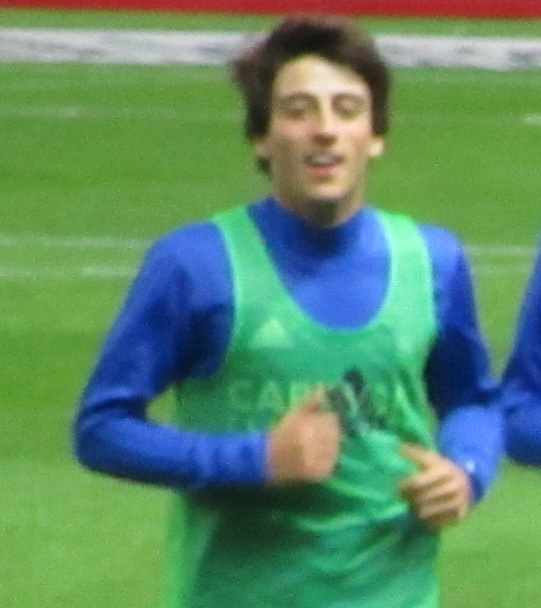 Julián Delmás, player of Real Zaragoza.